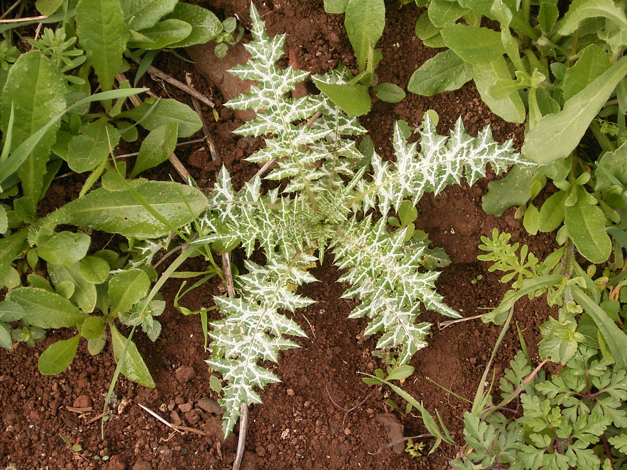 Galactites elegans (Syn.Galactites tomentosa) growing in Barlovento, La Palma, Canary Islands